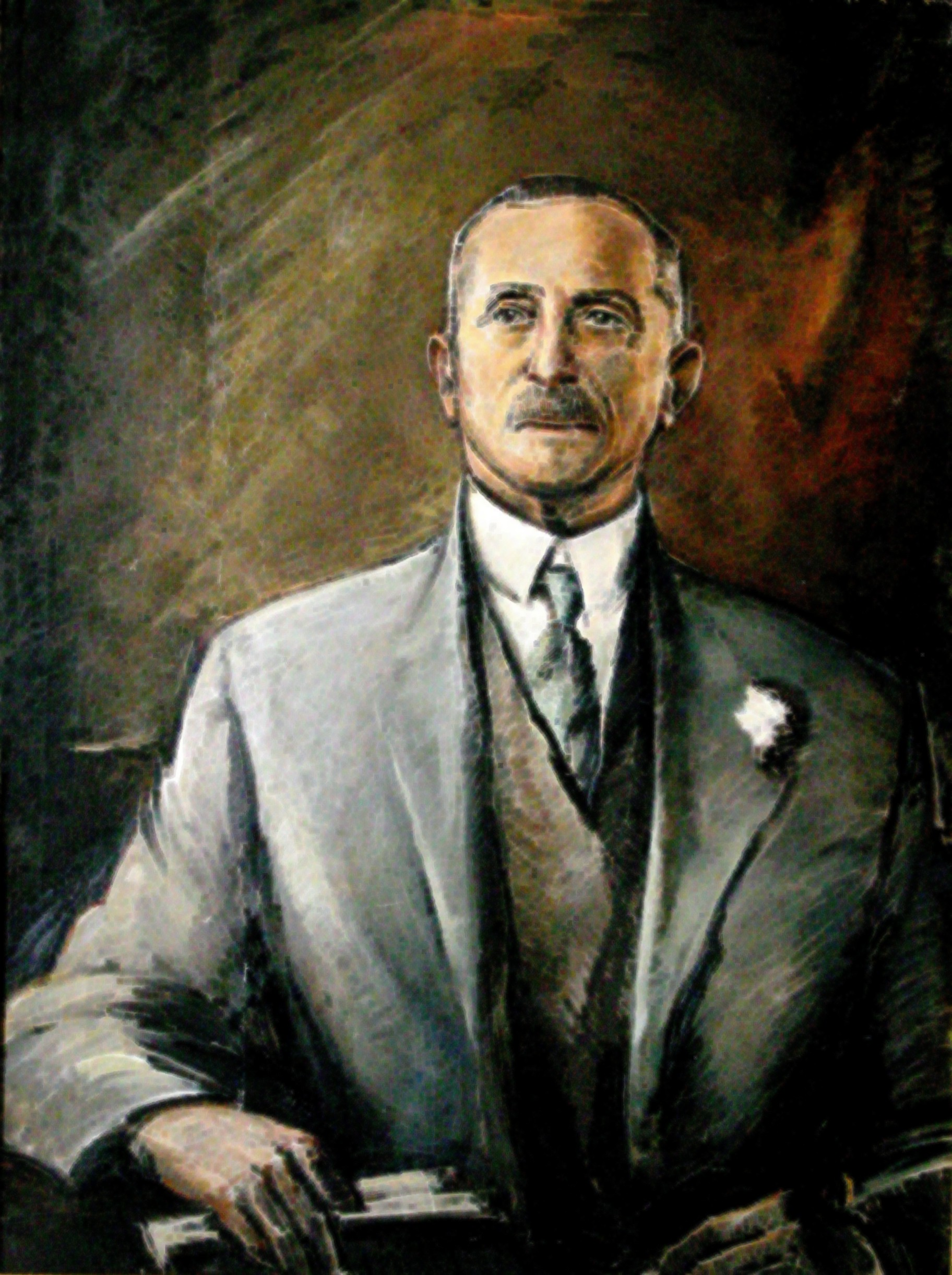 Portrait of Sir George Albu, 1st Baronet (26 October 1857 – 27 December 1935)